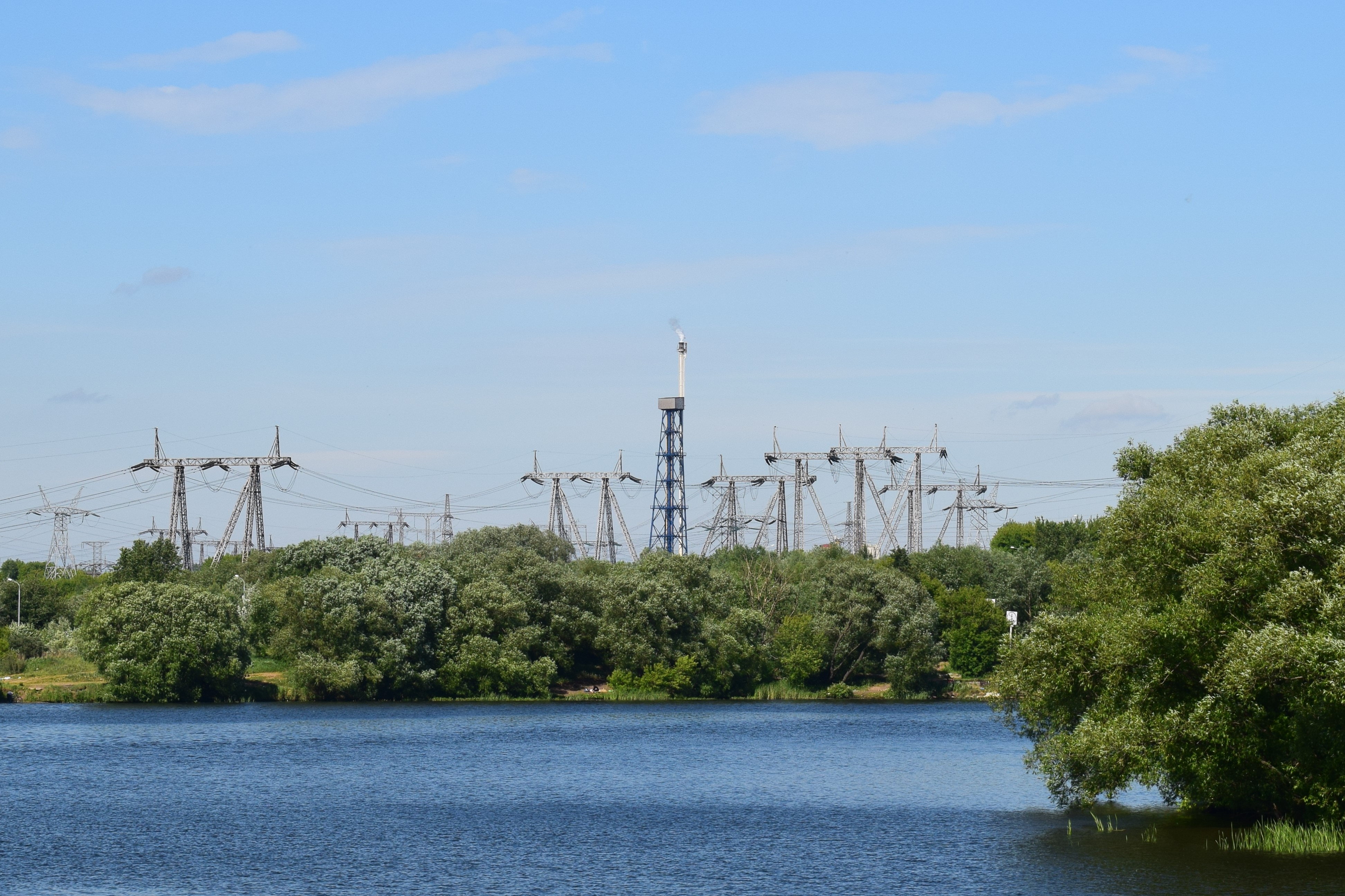 Flare installation of Moscow Oil Refinery (view from Brateyevo District).